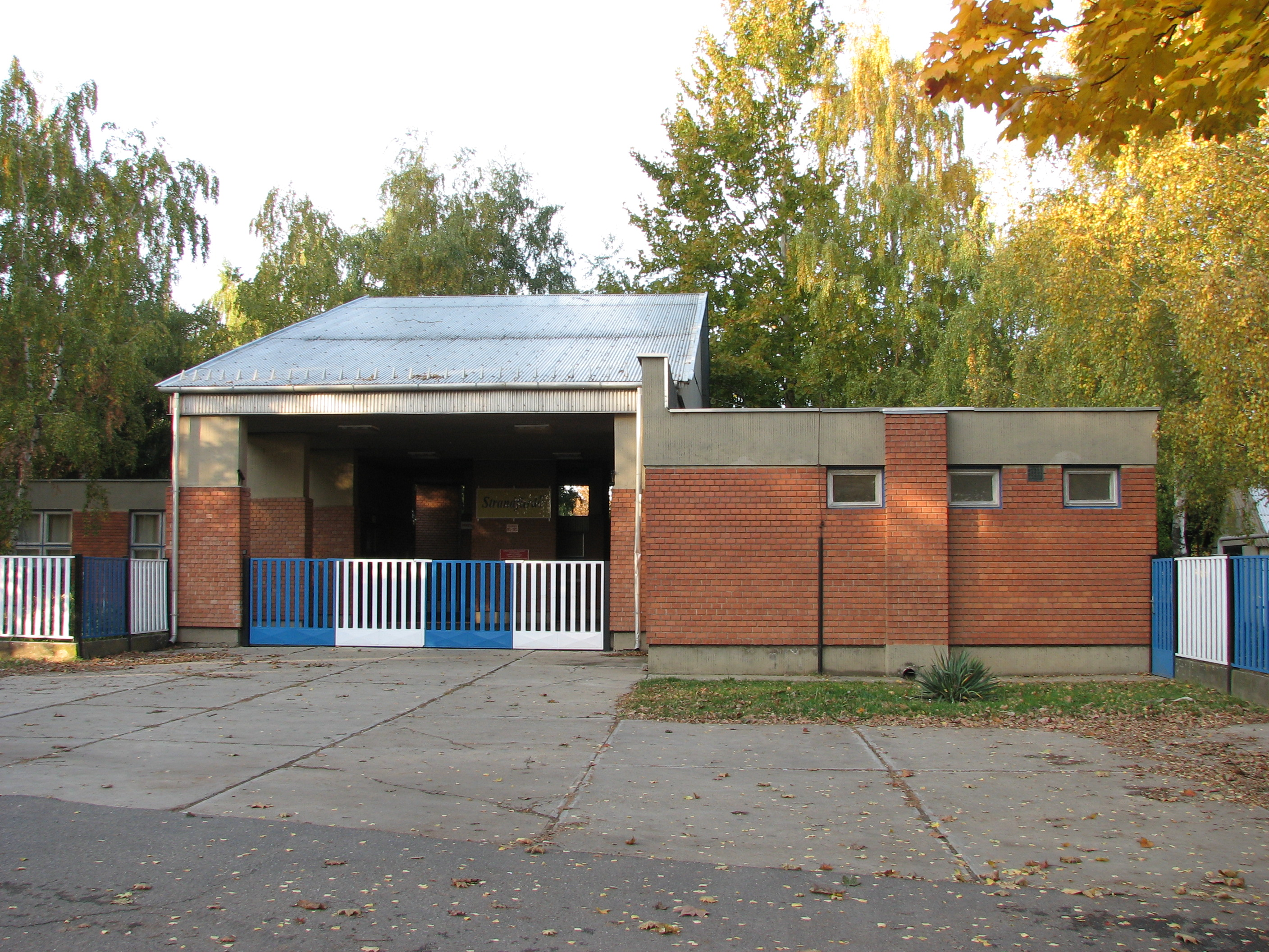 The entrance building of the Hajdúdorog Thermal Bath, Hungary.